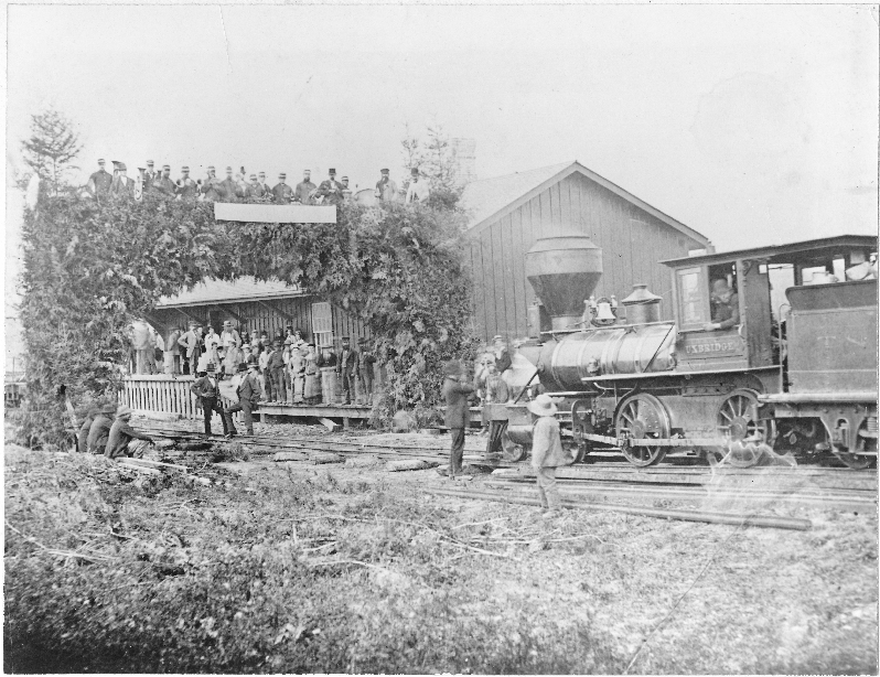 The first train arrives in Sutton, Ontario in 1877, along the newly constructed Lake Simcoe Junction Railway (LSJR). The line branched off the Toronto and Nipissing Railway (T&N) at Stouffville, about 45 km to the south. The LSJR was built at the same 3'6" narrow gauge as the T&N, leading to the narrow engines and cars seen in this image.